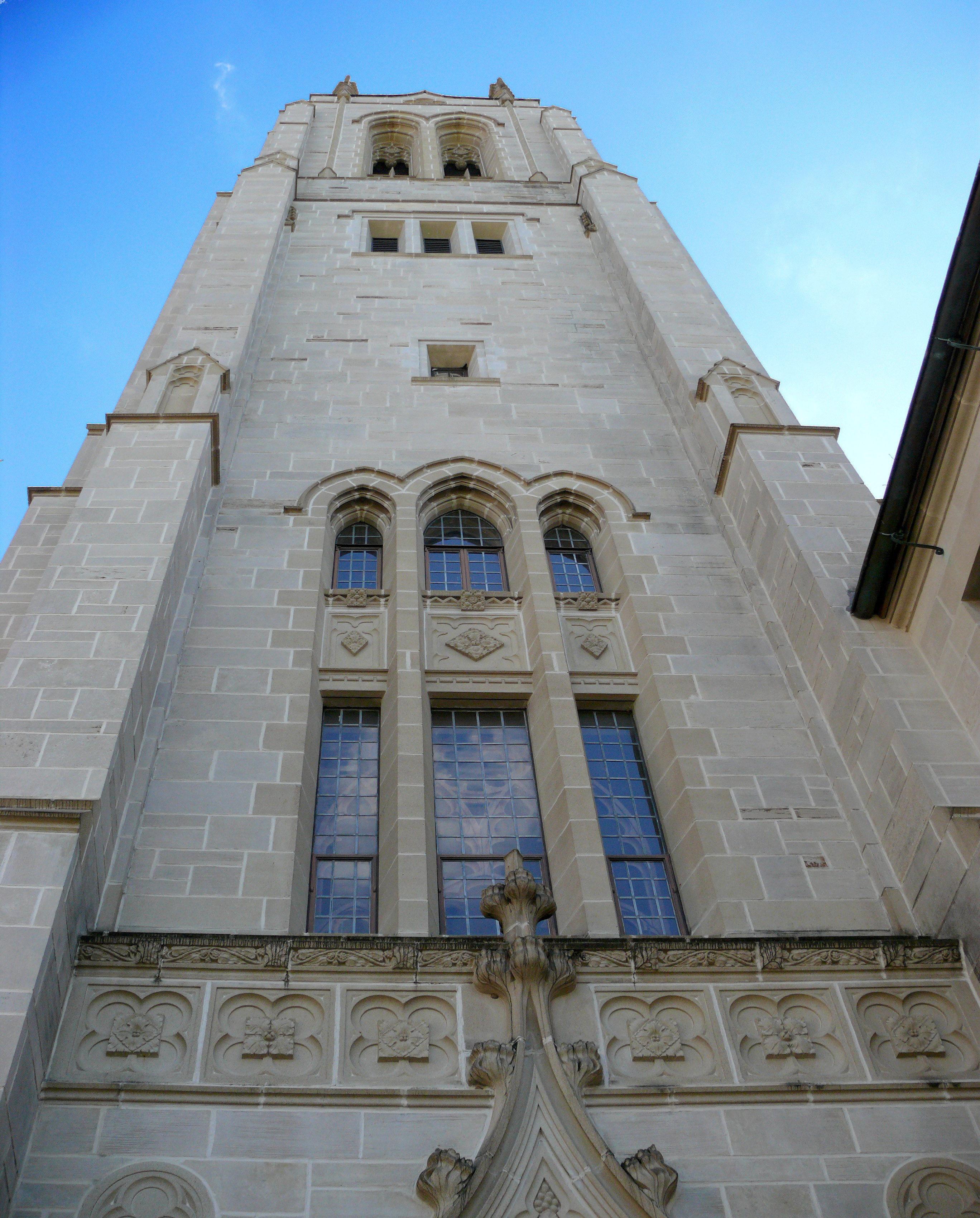 At the beginning of the 20th century, members of Houston’s Methodist community worked toward organizing a new congregation on what was then the burgeoning south end of town. In December 1905, individuals met at the J.O. Ross family home and held Christmas Eve services at the city auditorium. The congregation officially organized on January 14, 1906 with 153 charter members. Bishop Joseph Key preached the first sermon and suggested the congregation adopt St. Paul’s as its name. The Ross family gave lots at the corner of Milam and McGowen streets for a new building. Designed by R.D. Steele and consecrated in January 1909. The structure reflected a Grecian design with a dome reminiscent of Byzantine architecture. The church grew along with the city of Houston, and in the late 1920s, members launched a campaign to raise money for new facilities. Jesse H. Jones, Walter Fondren and J.M. West, Sr. each contributed $150,000, and the church hired noted architect Alfred C. Finn to design a new building at the corner of Main and Binz streets. The Neo-Gothic styling features a cruciform plan on a steel-frame structure with limestone cladding. Stained glass windows from the structure, and the impressive tower houses bells also brought from the church’s original sanctuary. St. Paul’s church members support an array of outreach, worship, education, mission, music and caring services to the community. At the turn of the 21st century, the church is a spiritual and social community center, as well as a long-standing Houston institution. Coordinates N29° 43.576 W95° 23.336